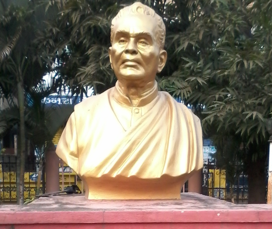 statue of tanguturi prakasam at rajahmundry